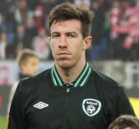 Sean St. Ledger Poland Ireland